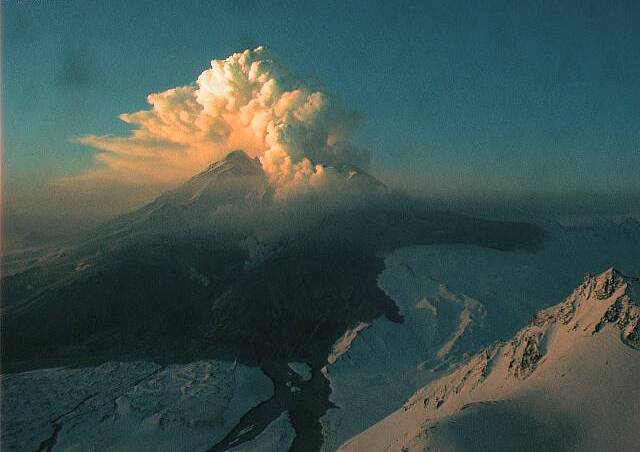 Mount Redoubt in Alaska erupting on the morning of April 4, 2009. Eruption started at approximately 6:00 a.m. Image taken at 8:11 a.m. (ADT). Exposure:500, Temperature:+30.5 Eruption sent ash more than 50,000 feet into the air.